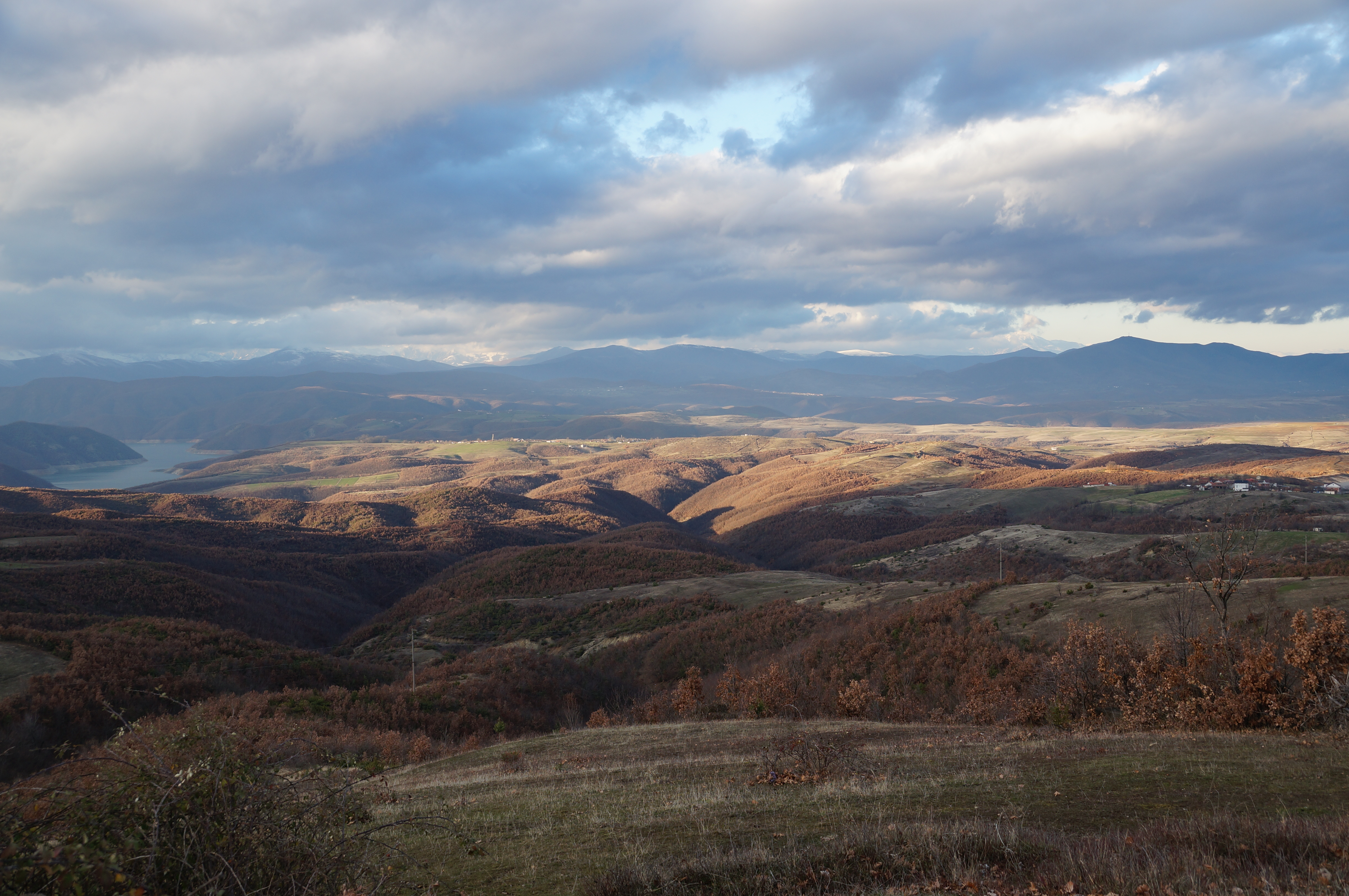 Has mountains in Northern Albania with Lake Fierza in the background